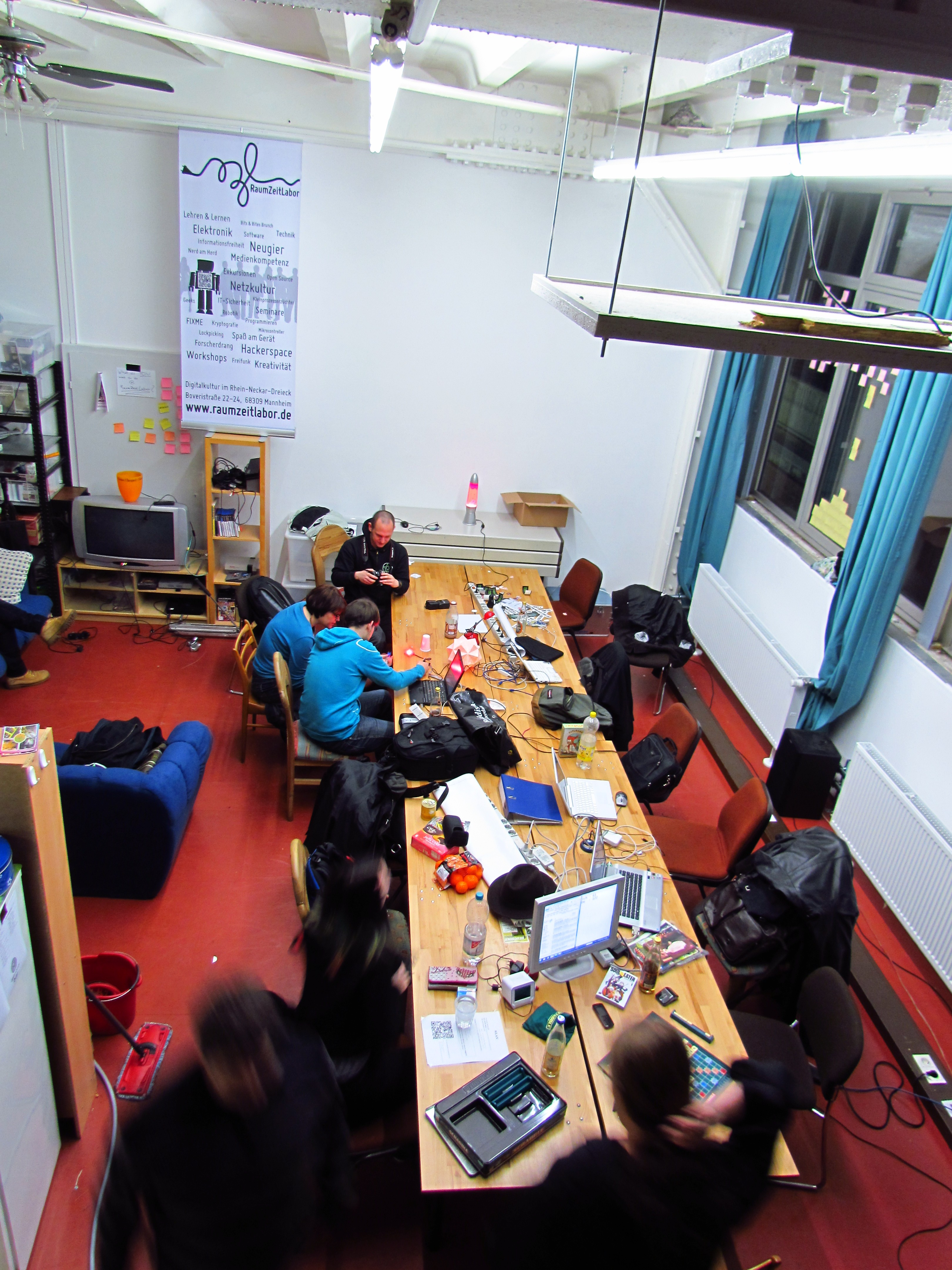 Overview from the stairs at RaumZeitLabor